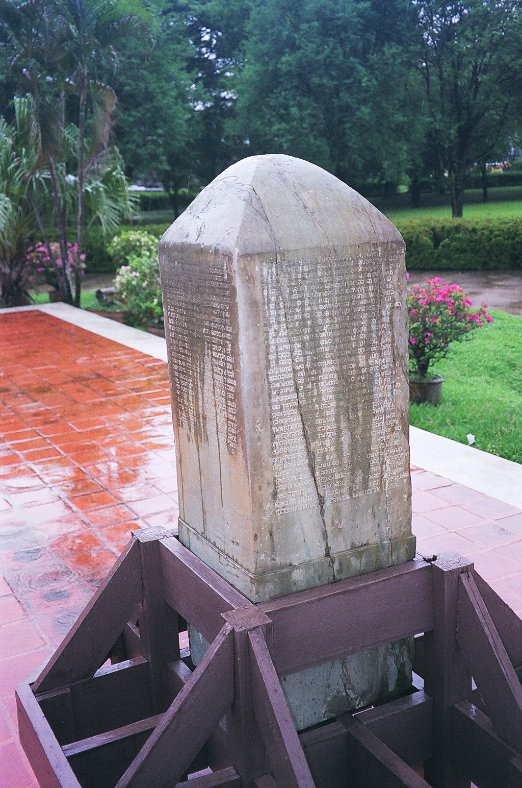 Ramkhamhaeng inscription in Sukhothai historical park